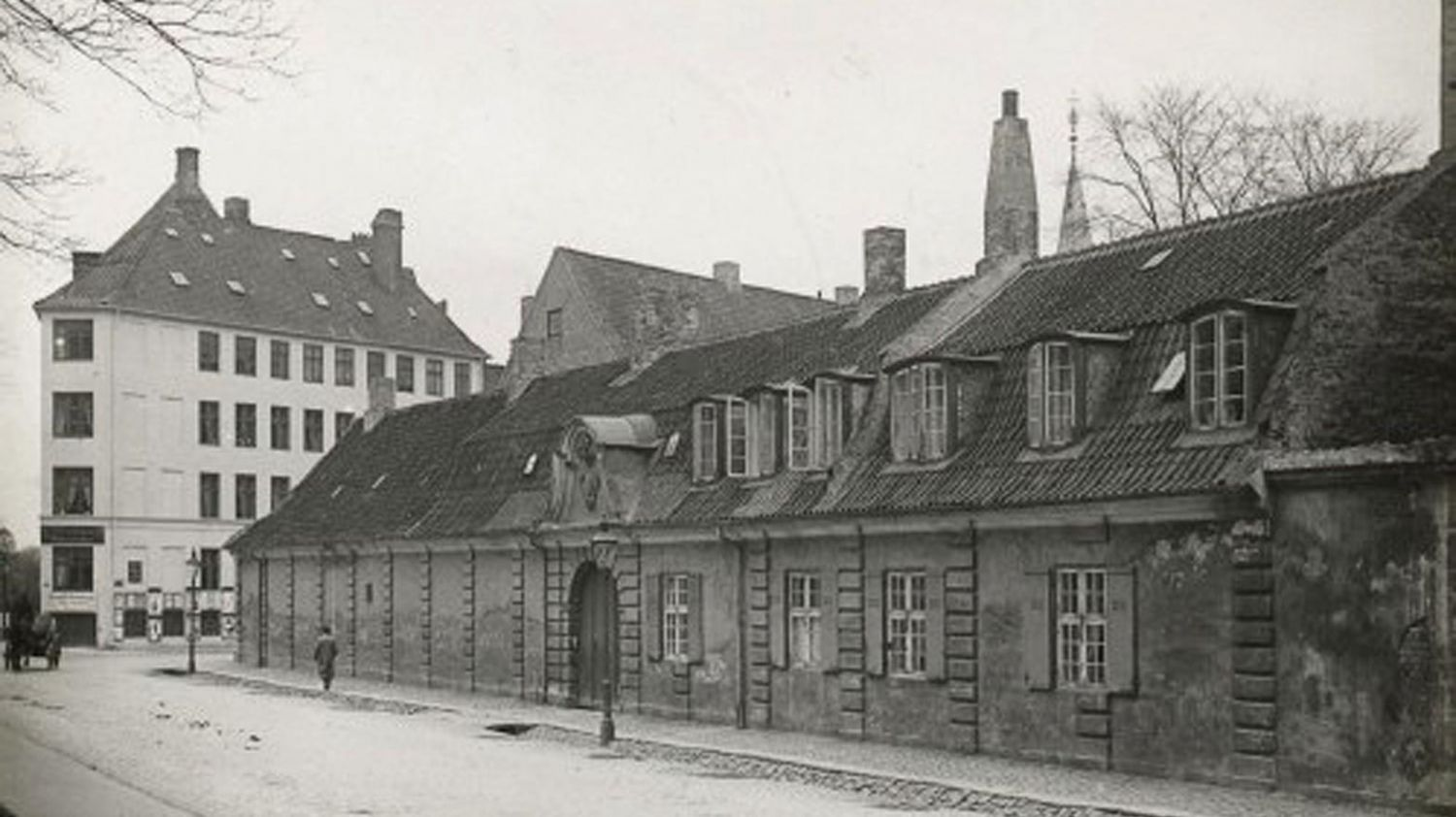 Stokhuset in Copenhagen, Denmark